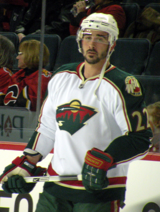 Minnesota Wild forward Cal Clutterbuck during warm-up prior to a National Hockey League game against the Calgary Flames in Calgary.